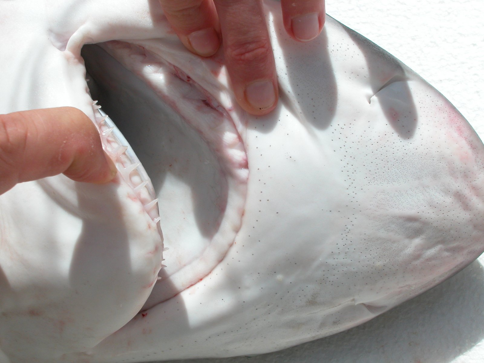 Carcharhinus amblyrhynchos. Mouth. Locality: near Récif Le Sournois, off Nouméa, New Caledonia. Total Length 1,111 mm, Weight 8,800 grams, Date 24-05-2004.